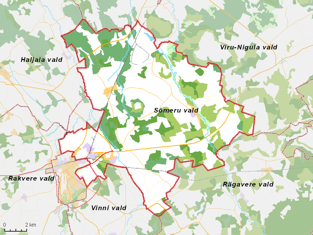 Map of municipality in Estonia